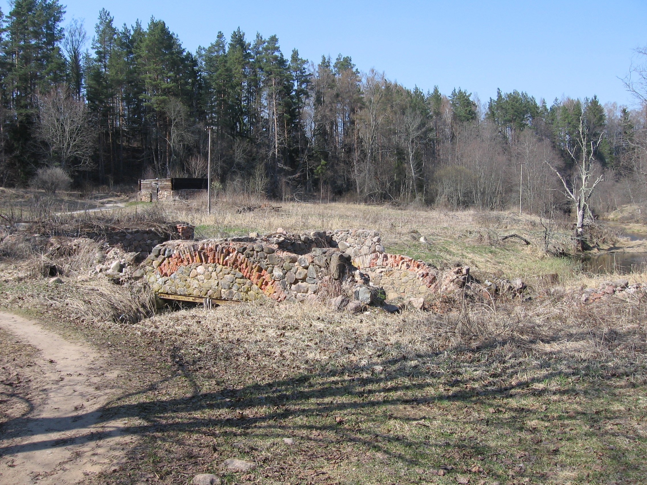 Otten watermill's water canal with bridge